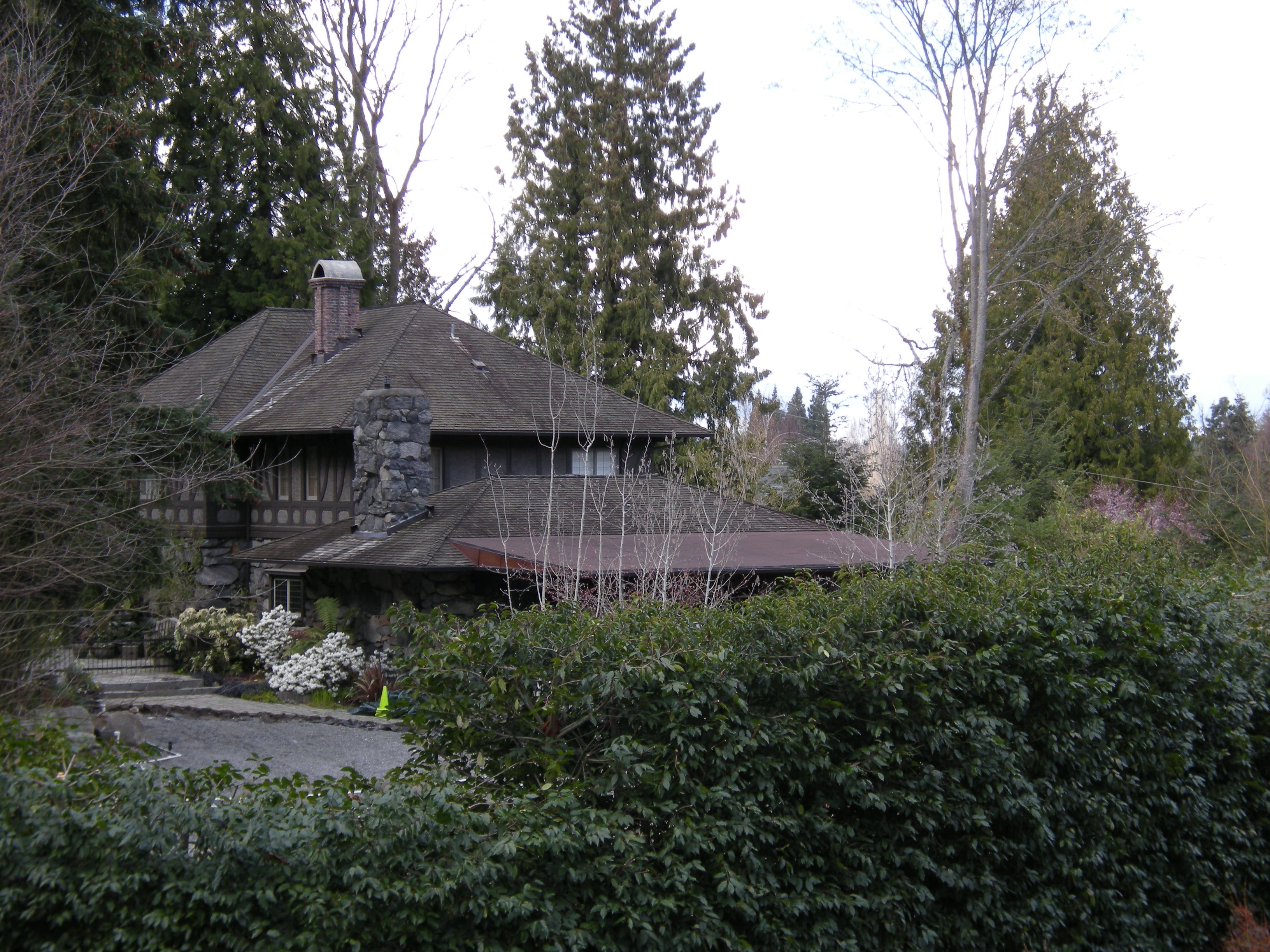 Boyer-Lambert House, 1617 Boyer Ave. E., Seattle, Washington, in Montlake / Interlaken near the Arboretum. The house has city landmark status. See David Wilma, HistoryLink, April 27, 2001.